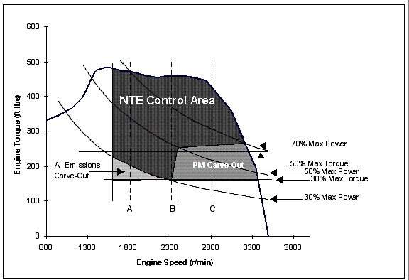 Author is US EPA This is a notice of proposed rulemaking